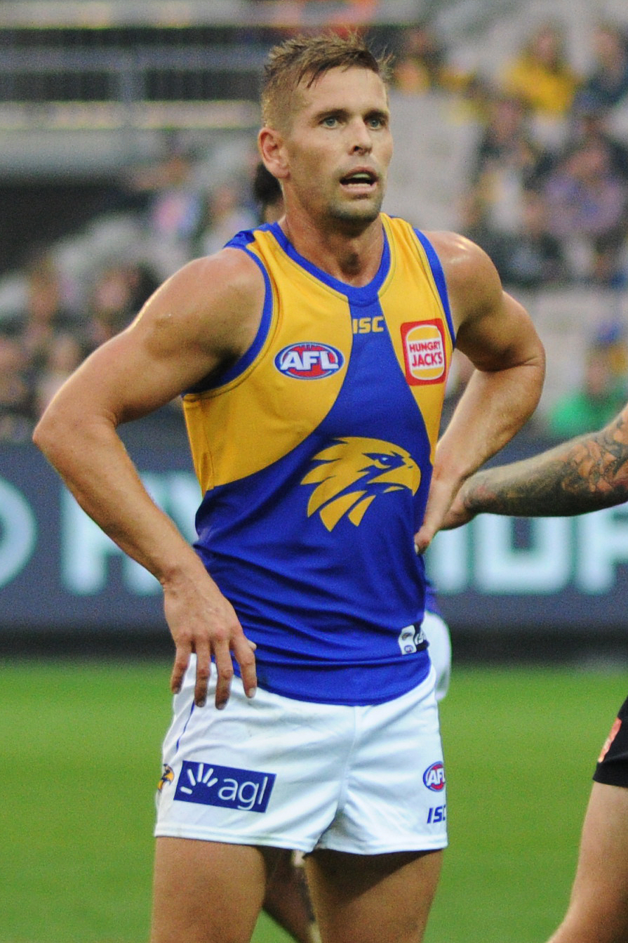 Mark LeCras during the AFL round five match between Carlton and West Coast on 21 April 2018 at the Melbourne Cricket Ground in Melbourne, Victoria.